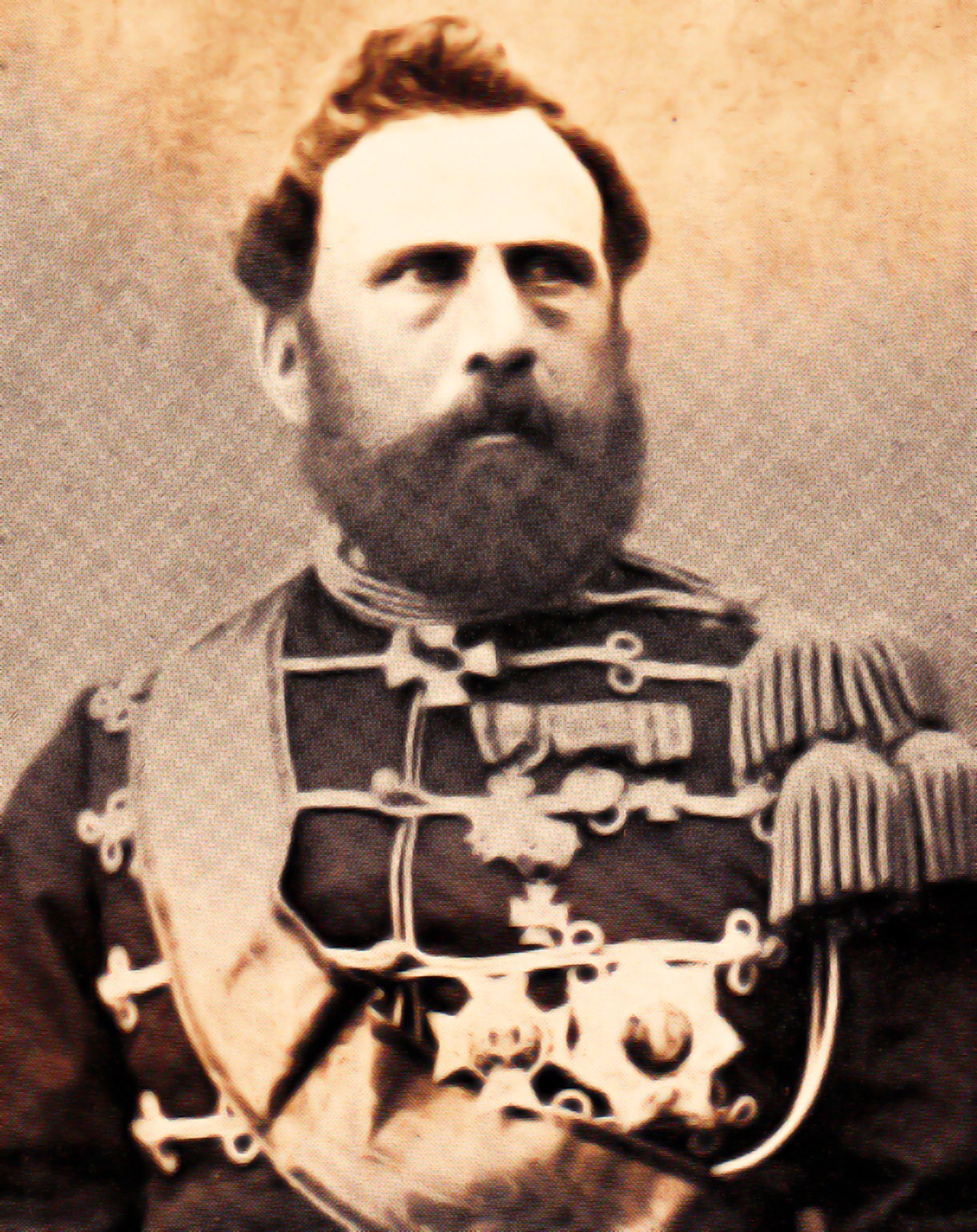 Generaal Engelvaart